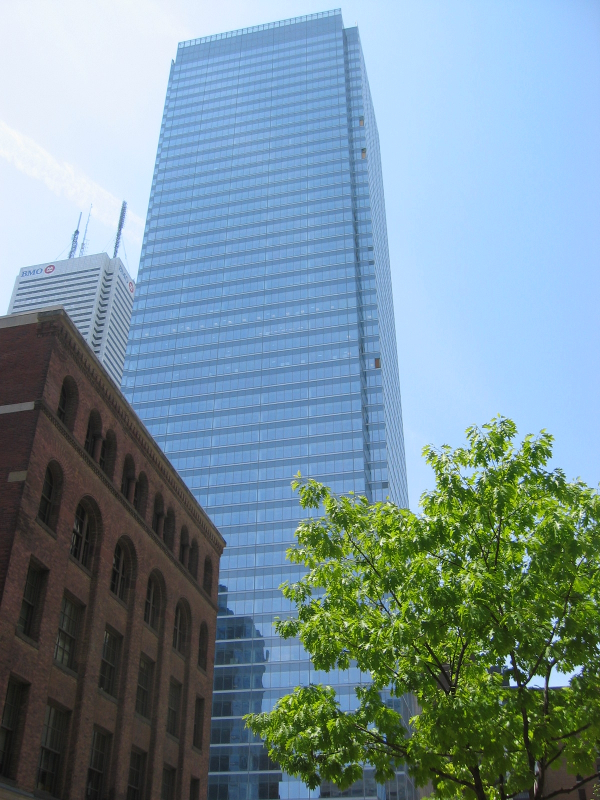 Bay Adelaide Centre, Toronto